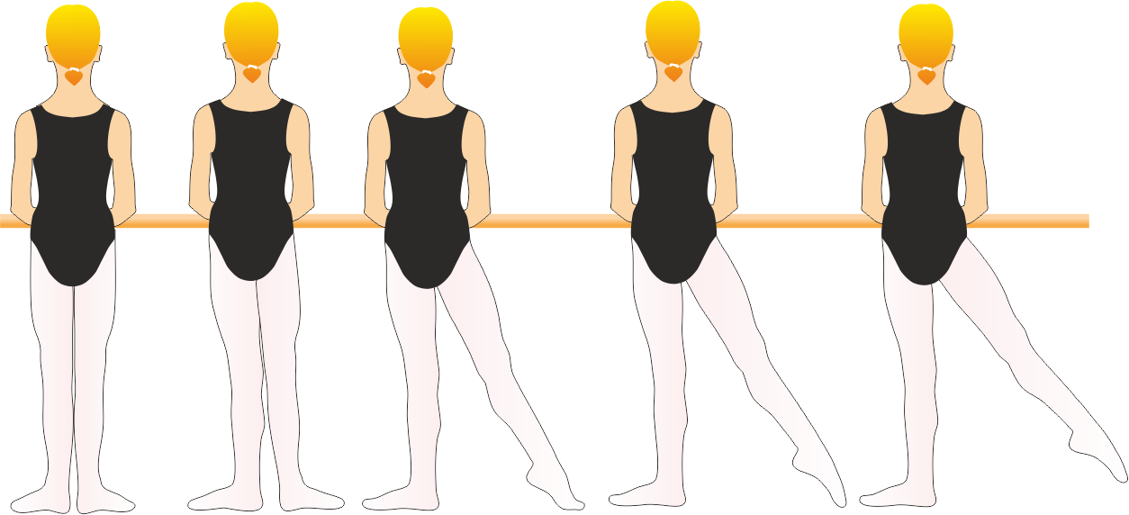 Ballet barre exercises: Battement jeté